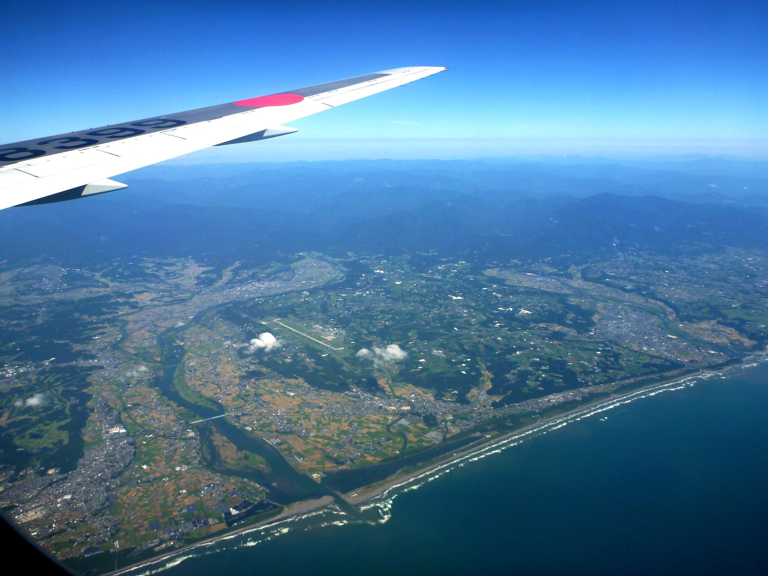 Coast of Miazaki Prefecture, Japan. Hitotsuse River in the left.